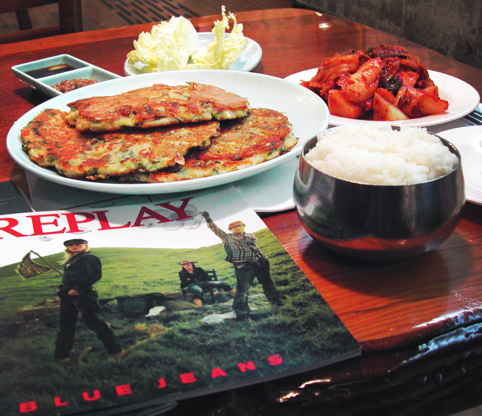 Bindaetteok, a Korean pancake made with mung bean powder, seafood, vegetables.